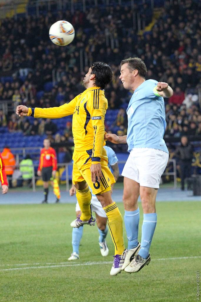 FC Metalist Kharkiv 3-1 Malmö FF Goals from Brazilians Taison and Fininho helped Metalist see off their Swedish guests to move to within touching distance of qualification from Group G.